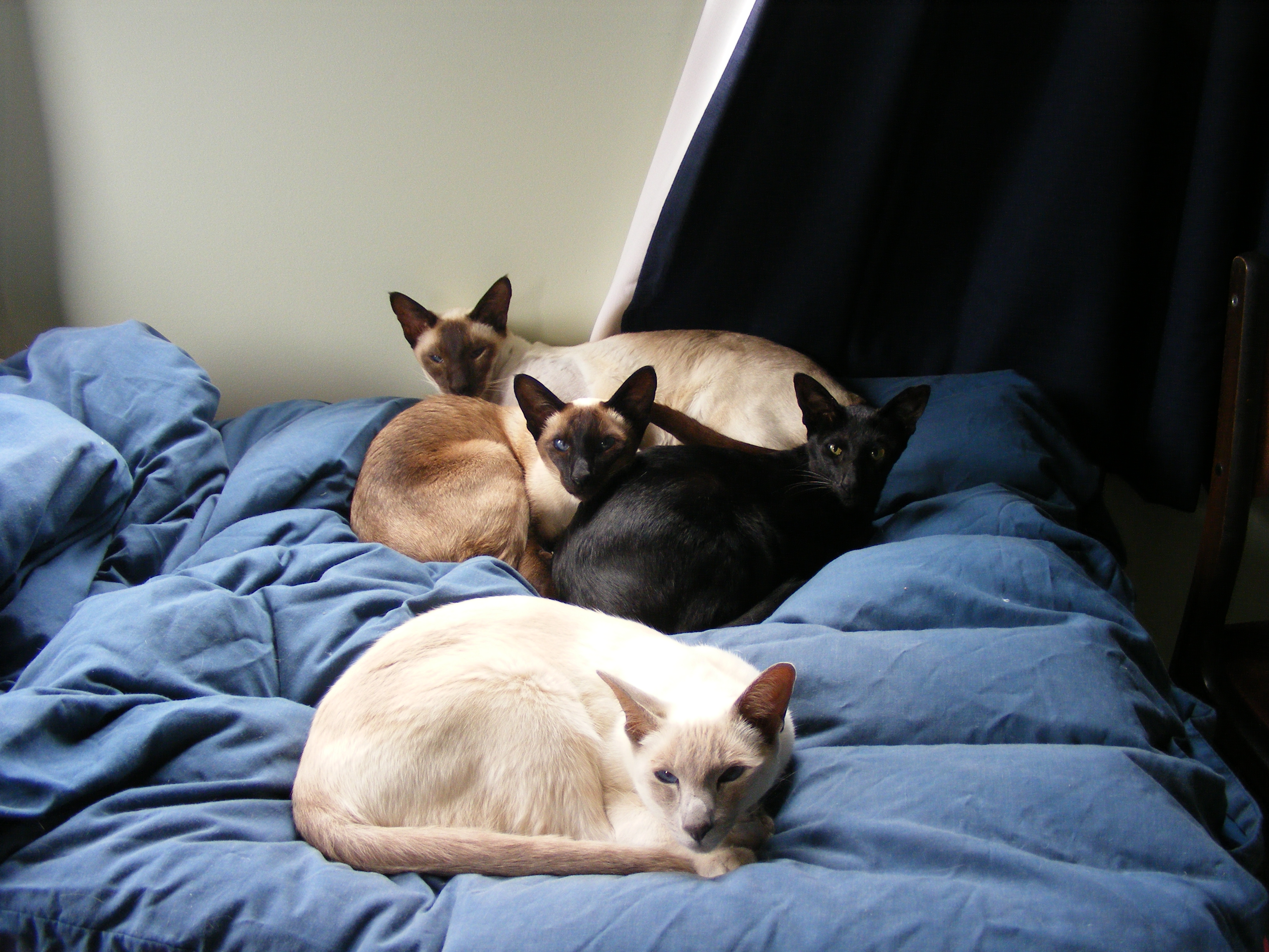 Three siameses (two sealpoint and a blue point) and an ebony oriental shorthair.